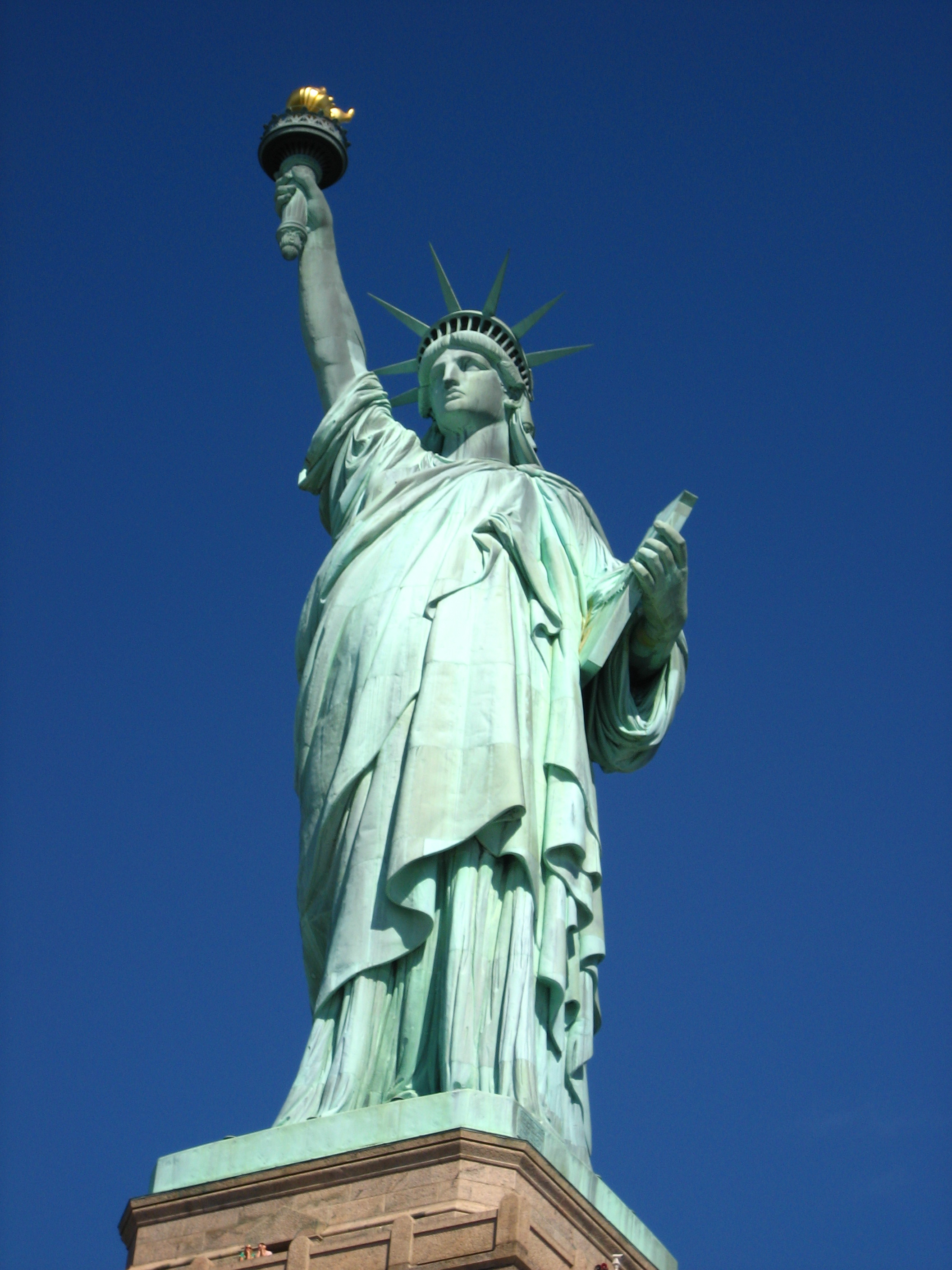 The Statue of Liberty in New York City